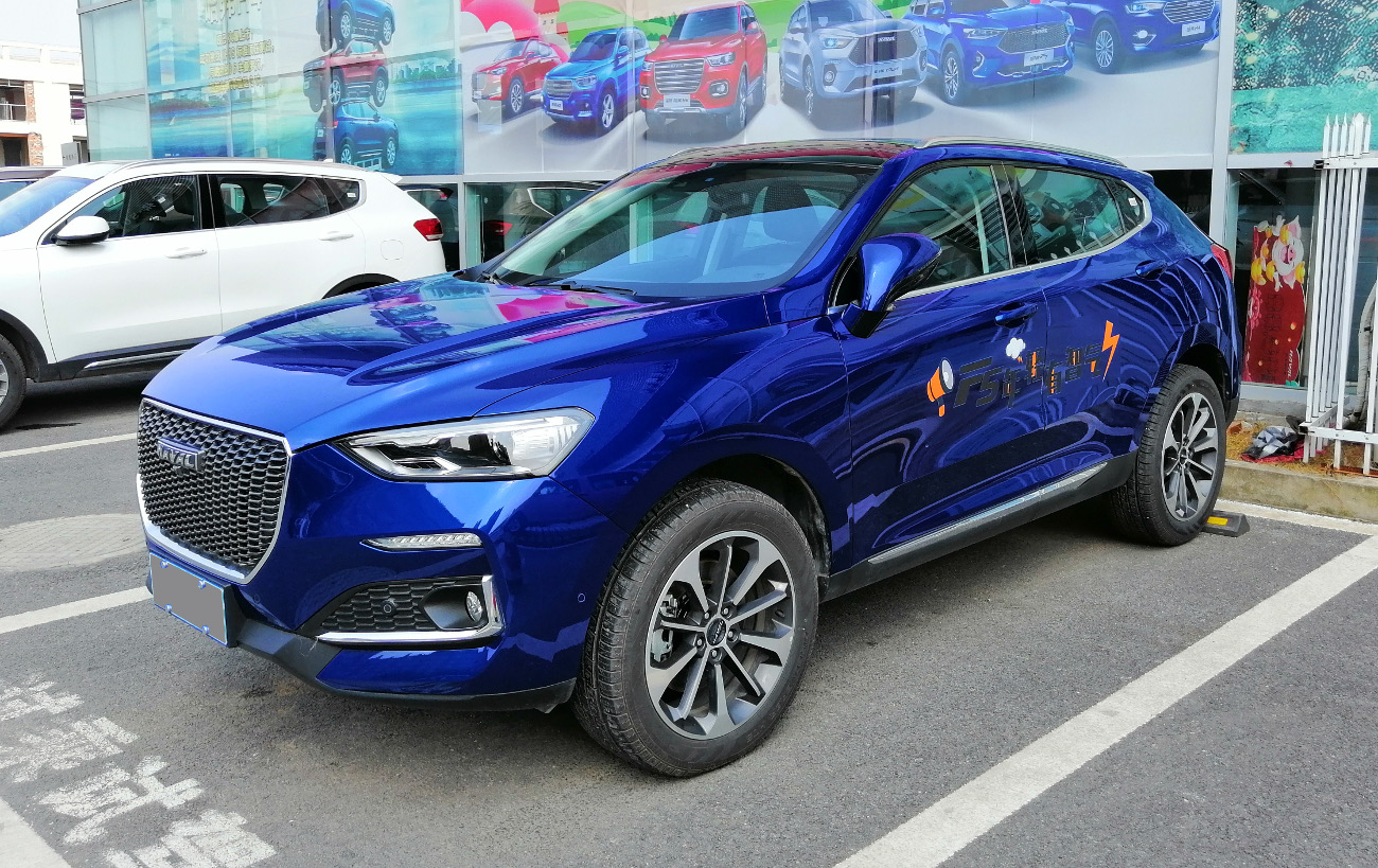 Haval F5 photographed in Hefei, Anhui province, China.